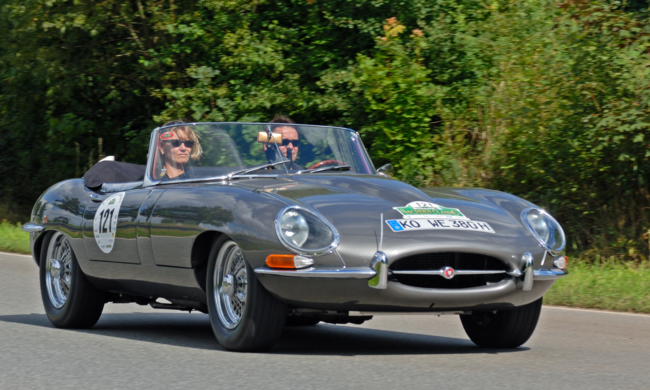 Jaguar E-Type Serie 1 from 1964 during the Saxony Classic Rallye 2010.